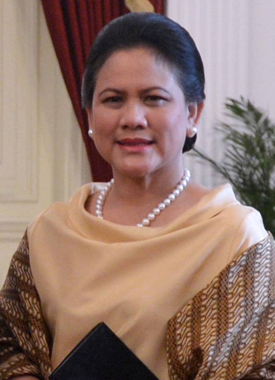 Iriana, First Lady of Indonesia, on November 12, 2016.